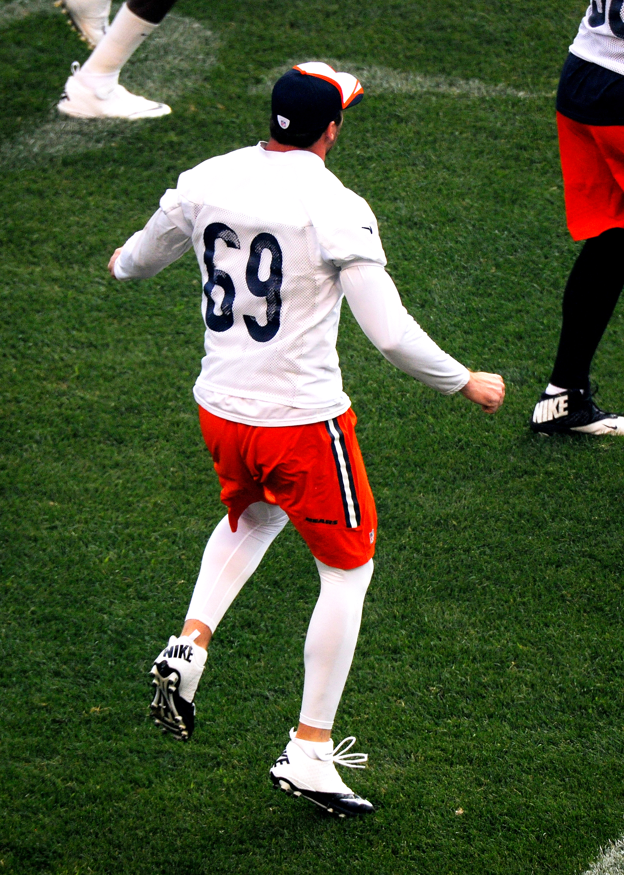 Chicago Bears DE Jared Allen in the 2014 season.